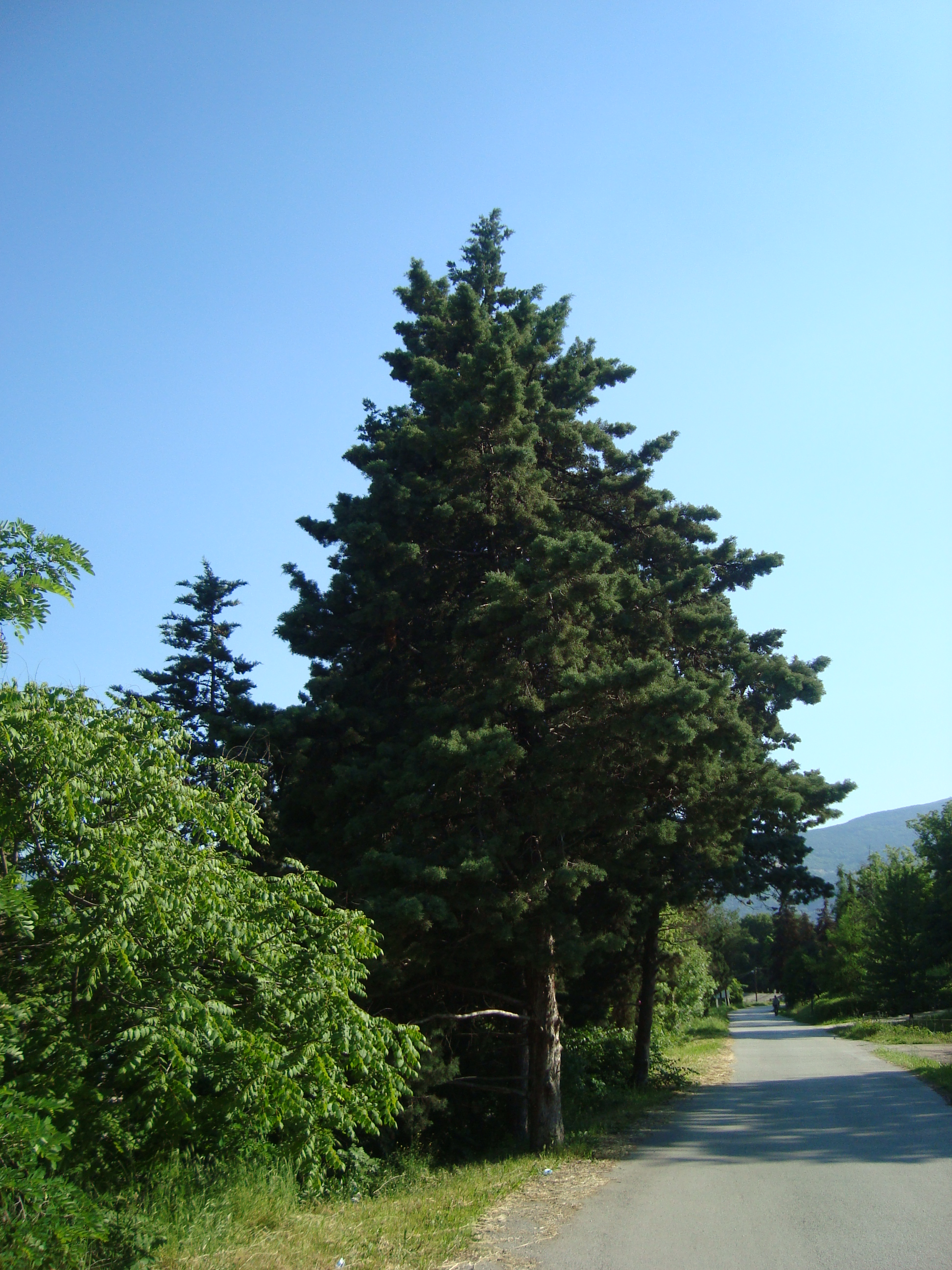 Plants and nature in Gazi Baba Park, Skopje, Macedonia.